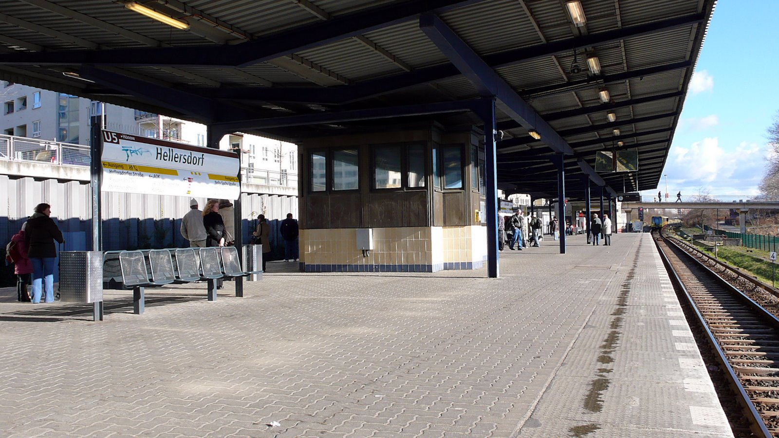 Hellersdorf